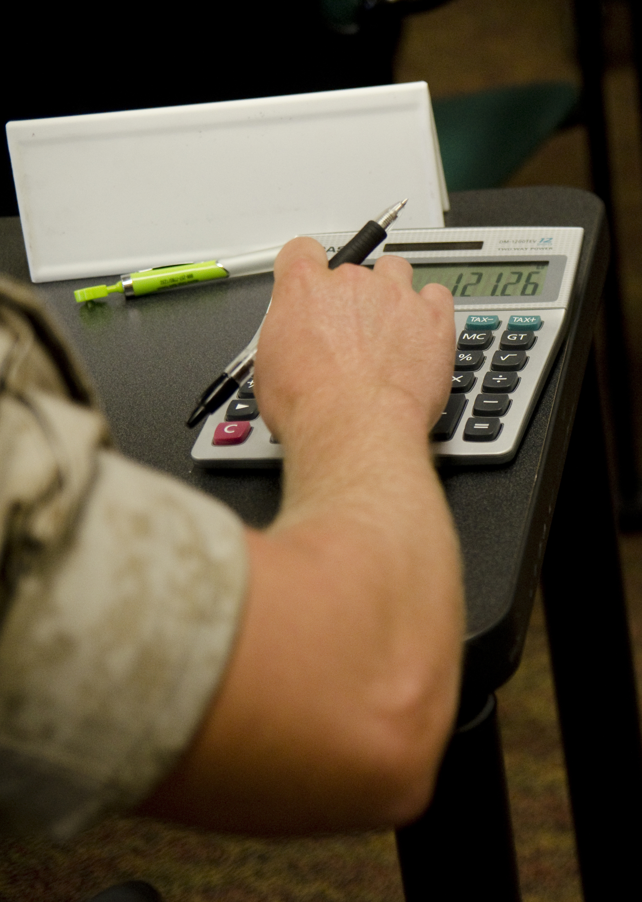 Cpl. Daniel McDuffie, the chemical, biological, radiological and nuclear chief with 3rd Radio Battalion, and an Eden, N.C., native, engages in an activity during the Corporals for Financial Fitness Program class in classroom G of building 220 in the Education Center, July 23, 2015. The two-day class is held semi-annually aboard Marine Corps Base Hawaii, and is taught by the Personal Financial Management Program staff. The Marine Corps version of the Million Dollar Sailor Program, the course was established by Headquarters Marine Corps last year, and Marine Corps Order 1700.37 outlines the eligibility requirements for the class. Materials will be provided for this hands-on class, including colorful “fidgeting” toys, which aid in kinesthetic learning, a type of learning gained through physical activity. Marines are asked to bring their financial paperwork, such as their leave and earnings statement, and their bank statements. Among the requirements, students must undergo an interview with a PFMP staff member, be endorsed by their command and meet Marine Corps physical fitness standards. Jacqueline Walker, the PFMP manager, said the purpose of the class is to prepare corporals for “financial readiness” and to support their fellow Marines in the same. The mission of Marine Corps Base Hawaii is to provide facilities, programs and services in direct support of units, individuals and families in order to enhance and sustain combat readiness for all operating forces and tenant organizations aboard the installation. (U.S. Marine Corps photo by Kristen Wong/Released)